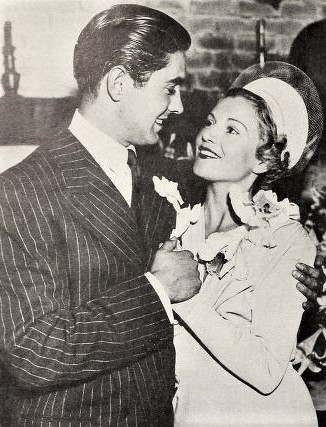 Tyrone Power with his wife Annabella